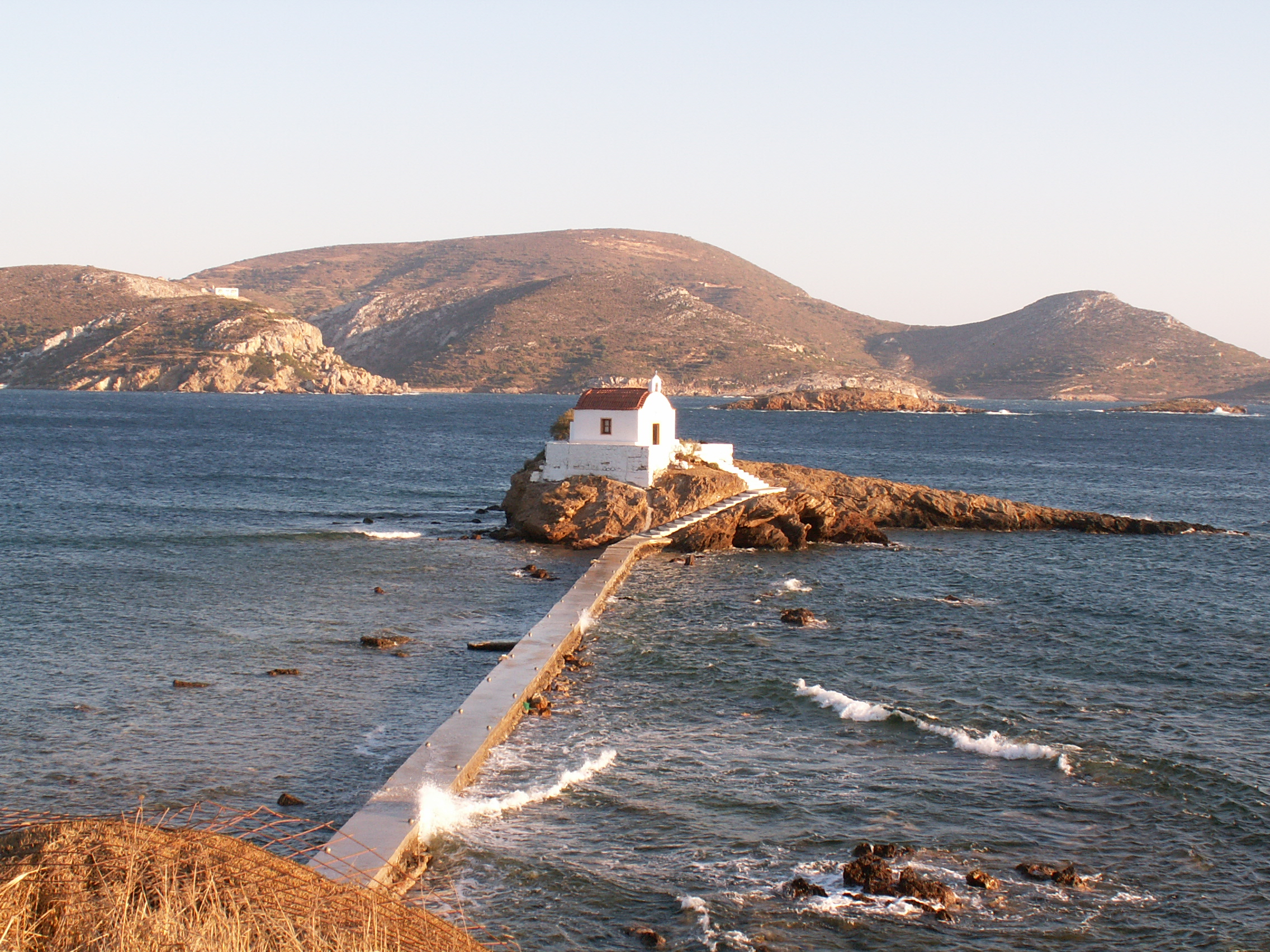 Agios Isidoros church on Leros